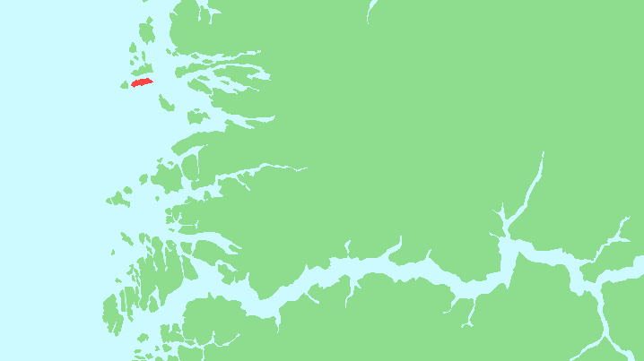 Locator map of Reksta, Sogn og Fjordane, Norway